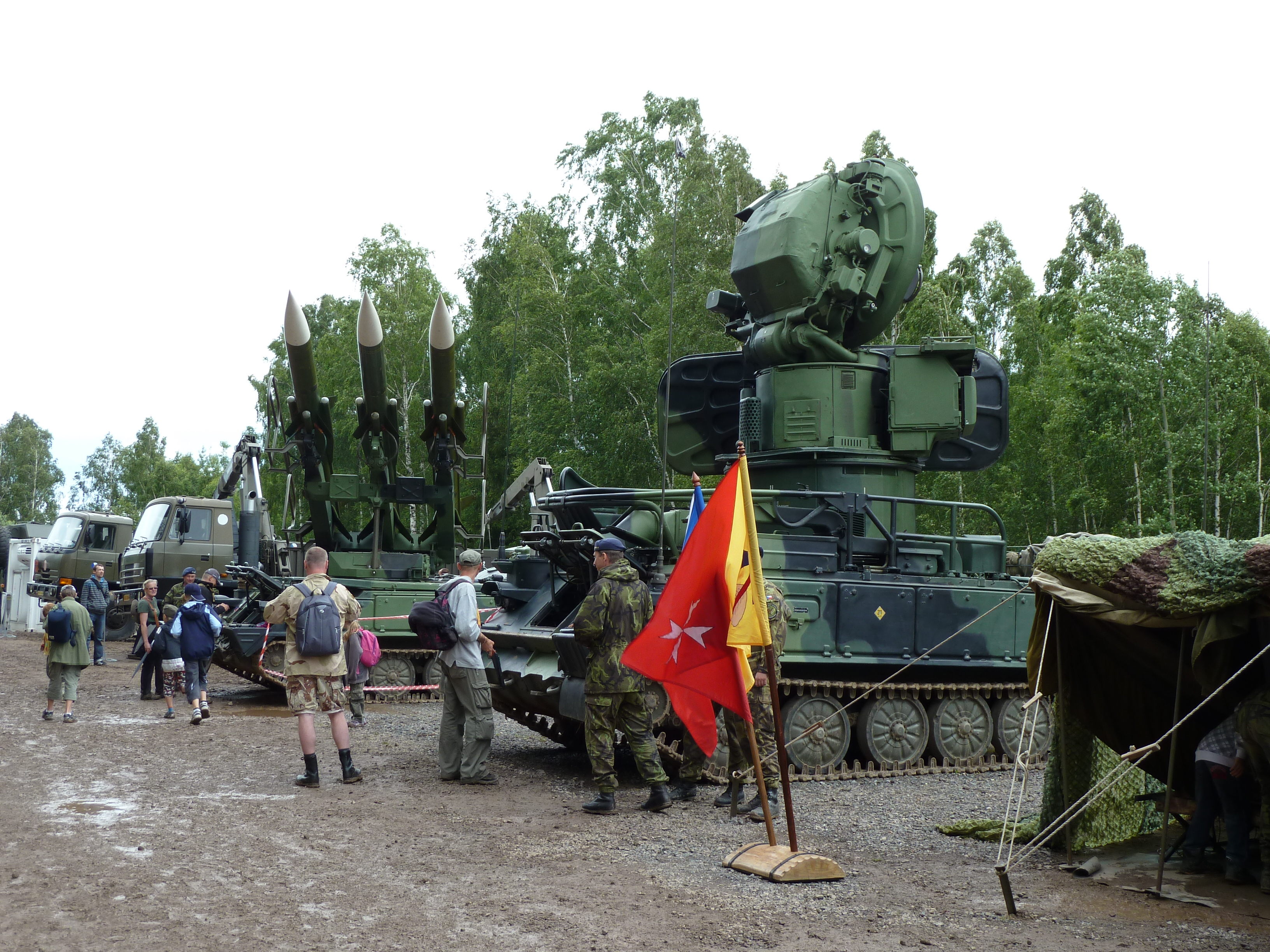 BAHNA 2011 - Presentation of Czech Army; Brdy, Czech Republic